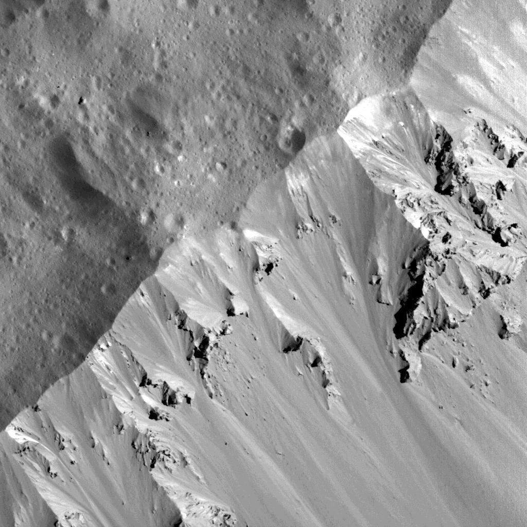 PIA22550: Occator's Northern Wall This image of Occator Crater's northern wall was obtained by NASA's Dawn spacecraft on June 16, 2018 from an altitude of about 21 miles (33 kilometers). The sub-spacecraft position from which this image was taken is about 25.8 degrees north latitude and 242.1 degrees east longitude. Dawn's mission is managed by JPL for NASA's Science Mission Directorate in Washington. Dawn is a project of the directorates Discovery Program, managed by NASA's Marshall Space Flight Center in Huntsville, Alabama. JPL is responsible for overall Dawn mission science. Orbital ATK Inc., in Dulles, Virginia, designed and built the spacecraft. The German Aerospace Center, Max Planck Institute for Solar System Research, Italian Space Agency and Italian National Astrophysical Institute are international partners on the mission team. For a complete list of Dawn mission participants, visit For more information about the Dawn mission, visit